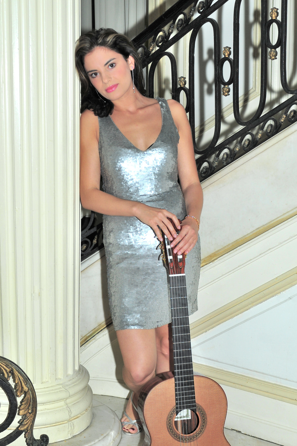 Ana Vidovic at staircase in Baltimore Engineer's Club